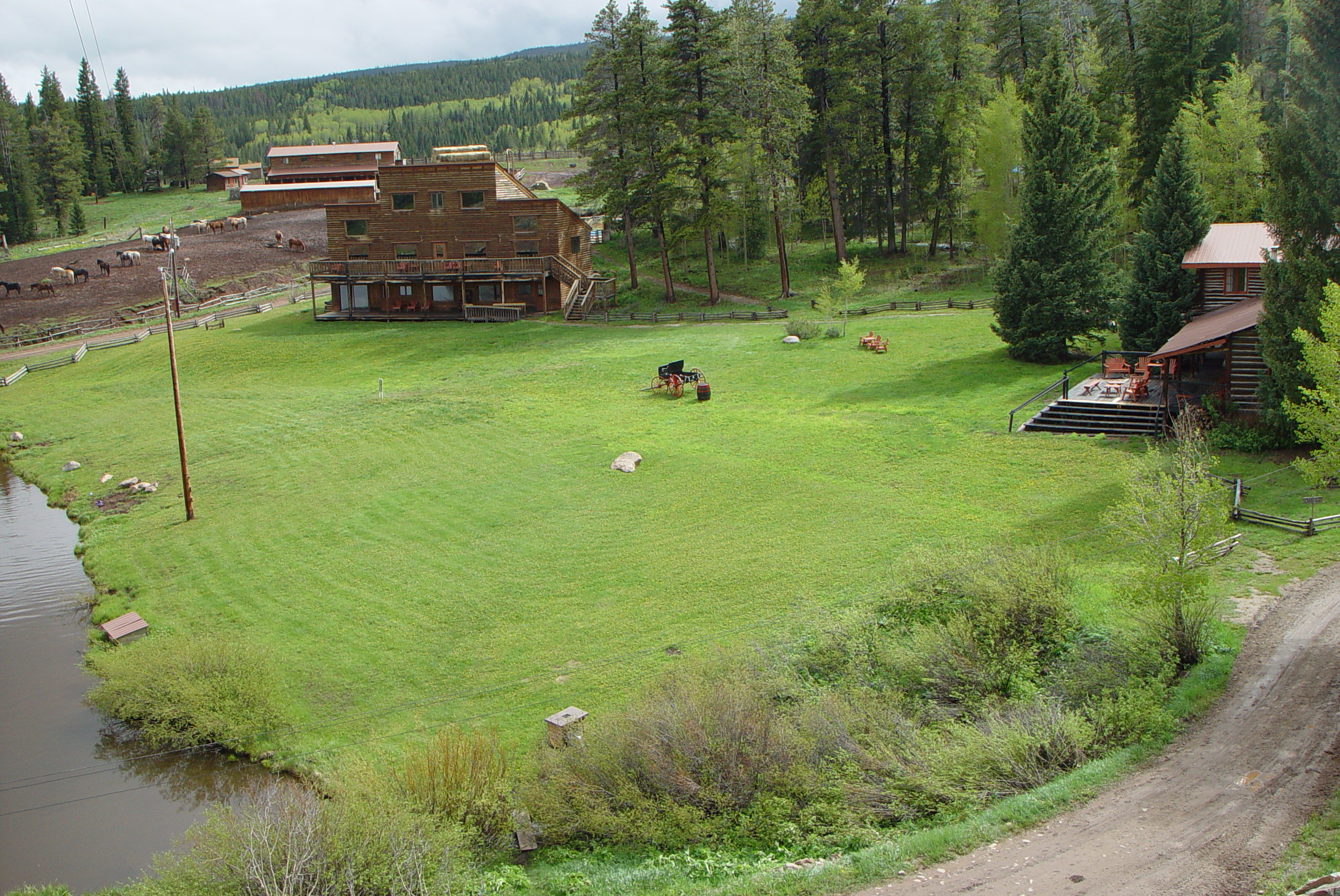 A view of Latigo Ranch's Social Club, Dinning Hall, Fishing Pond, and Field. Photo taken by User:LBJacob09, 10th June 2005 using a Sony CyberShot DSC-F717.